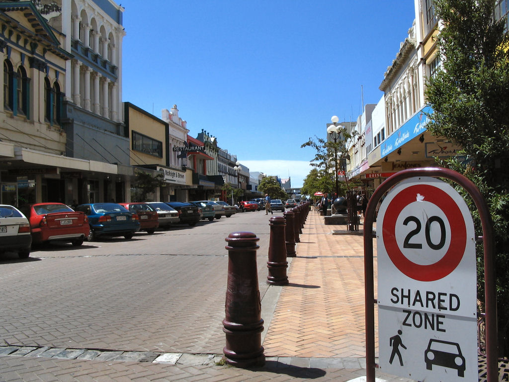 Corner of Esk and Dee Streets, Invercargill, New Zealand. Photo by William Stewart